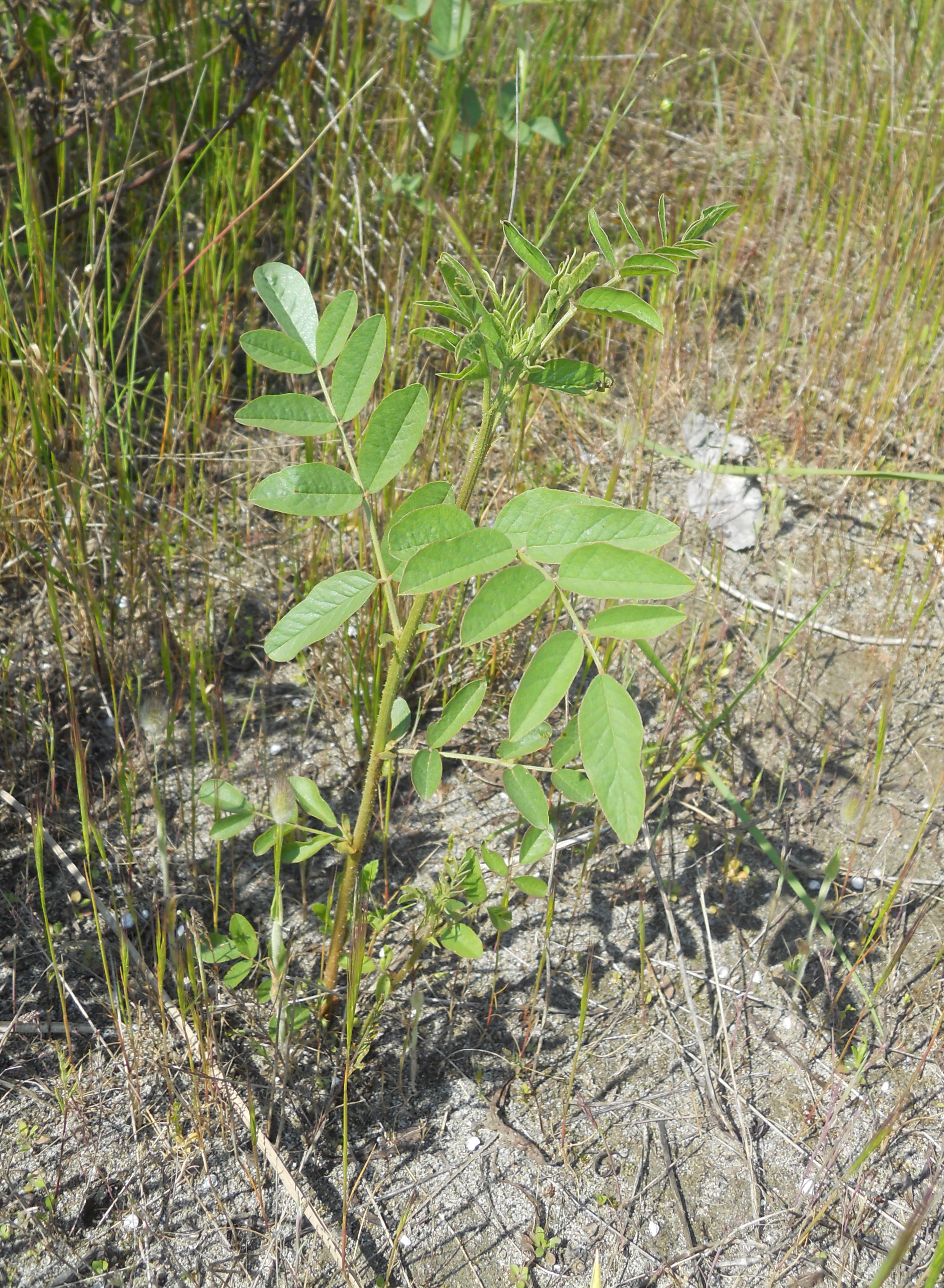 Liquorice plant - Bosco Pantano Natural Park, Policoro (Basilicata, Italy)